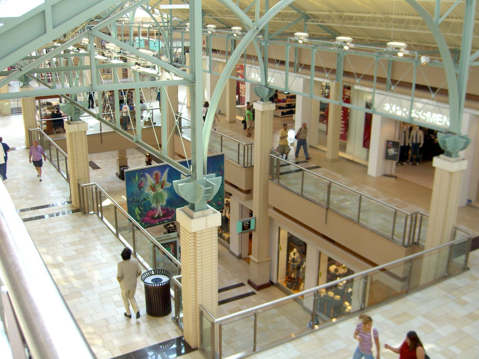 The interior of the Newport Centre mall, as seen on September 28, 2006. This photo was created by Luigi Novi. It is not in the public domain, and use of this file outside of the licensing terms is a copyright violation.